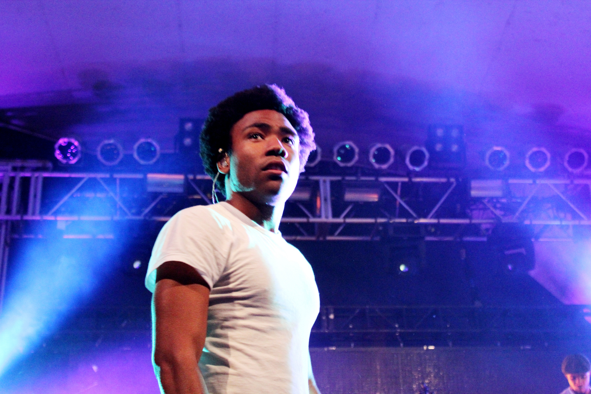 Childish Gambino in a concert at Austin, TX